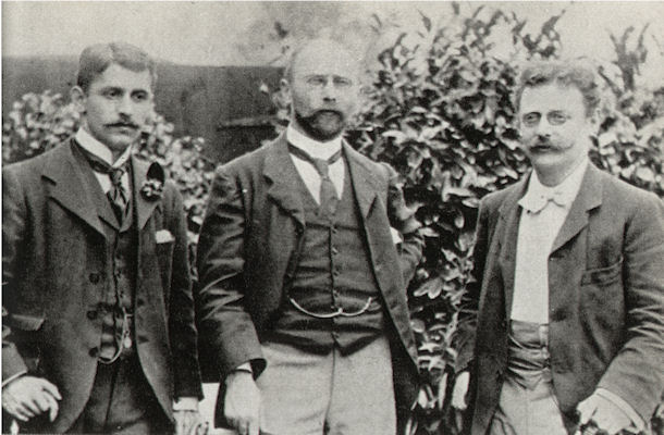 They are from the left Hugo Hirst, Gustav Byng and Max Byng. The photo appears in Anatomy of a Merger by Robert Jones & Oliver Marriot – the best way (so far) to find out about the history of the GEC, the AEI and English Electric.